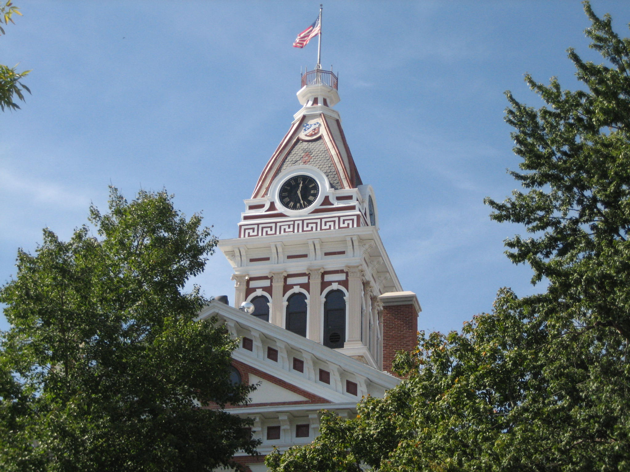 Livingston County Courthouse, Pontiac, Illinois, USA. U.S. National Register of Historic Places.